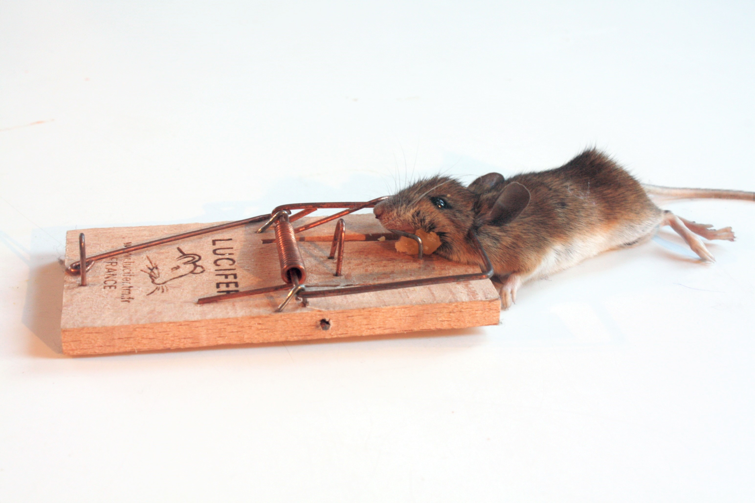 Mousetrap with house mouse